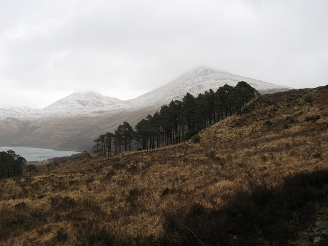 Roshven Estate View from Marino Lodge in Roshven Estate, on an elevated position on Roshven Hill with fantastic panoramic views over Loch Ailort.